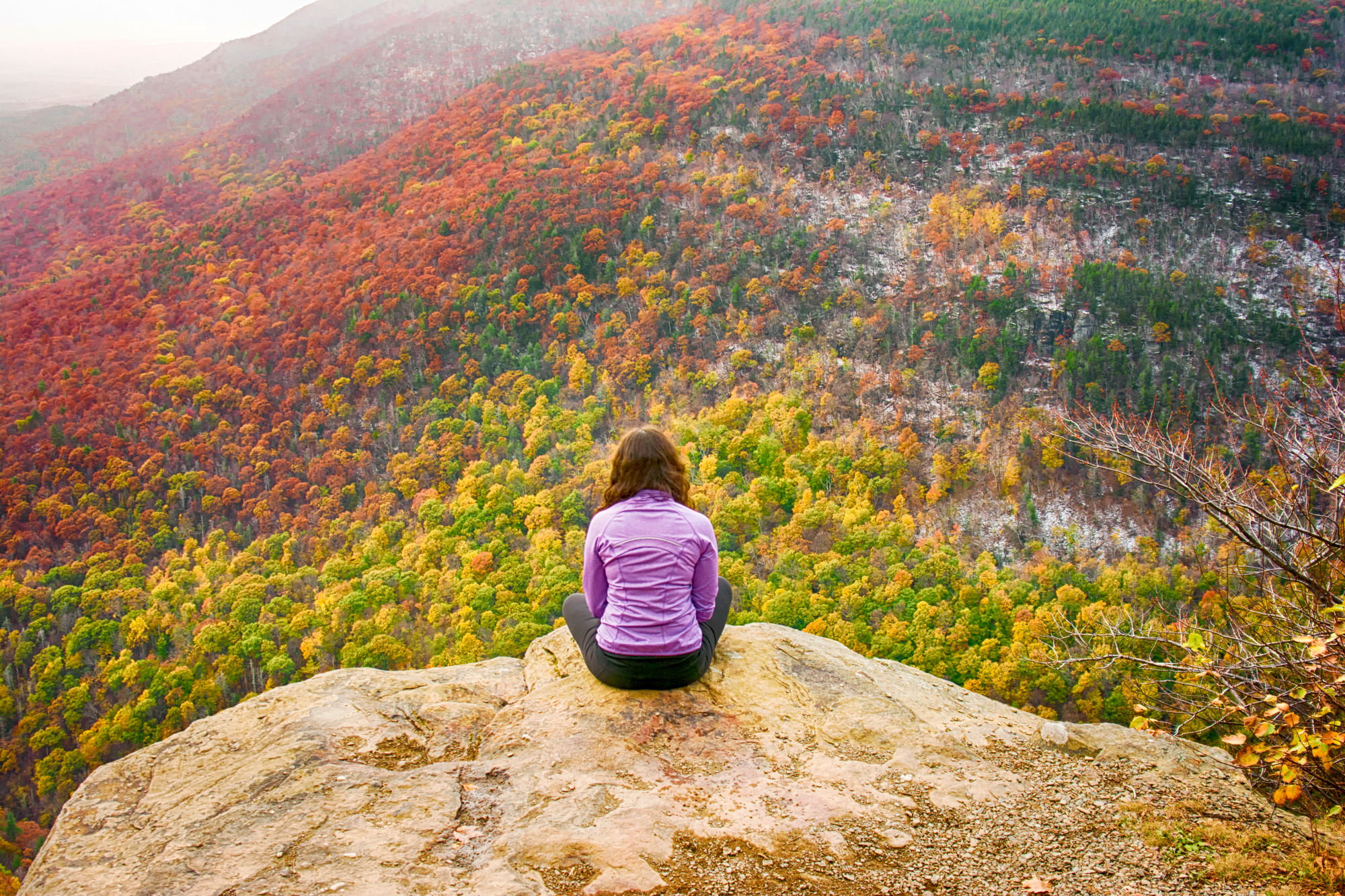 The view from a ridge at Kaaterskill High Peak